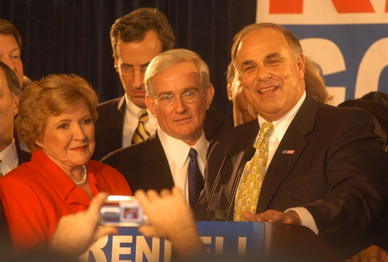 Catherine Baker Knoll , Dan Frankel, Tom Murphy (mayor), and Ed Rendell during the 2006 Pennsylvania gubernatorial election.